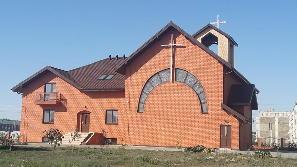 Roman Catholic church of the Holy Family in Chromtau, Kazakhstan